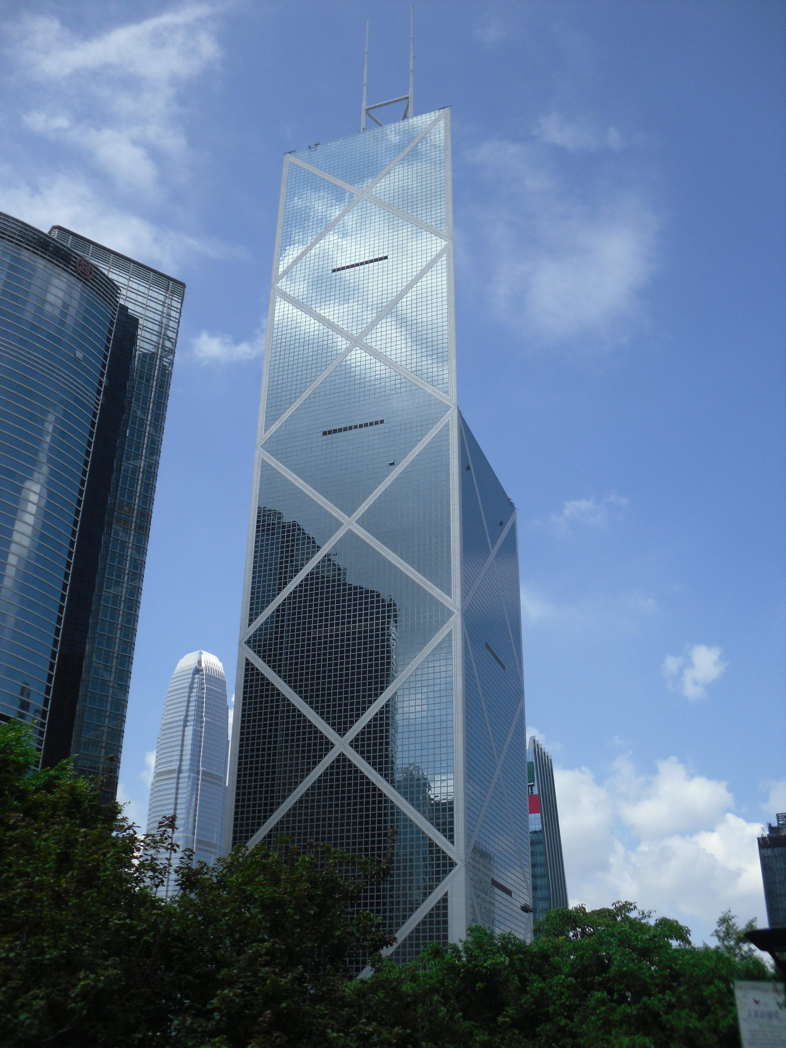 Bank of China Building in Hong Kong